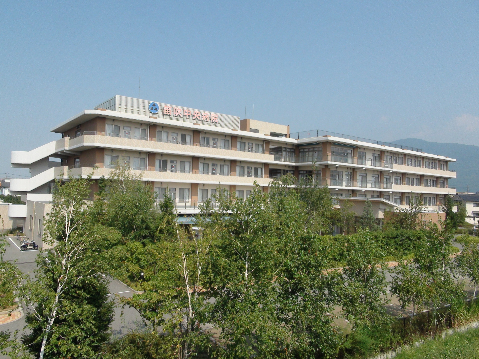 Fuefuki Central Hospital